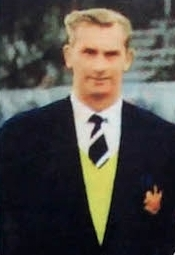 Art depicting the Linfield F.C. squad of the 1957/58 season.